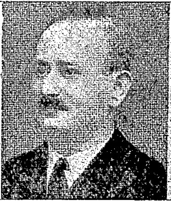 Mojżesz Frostig